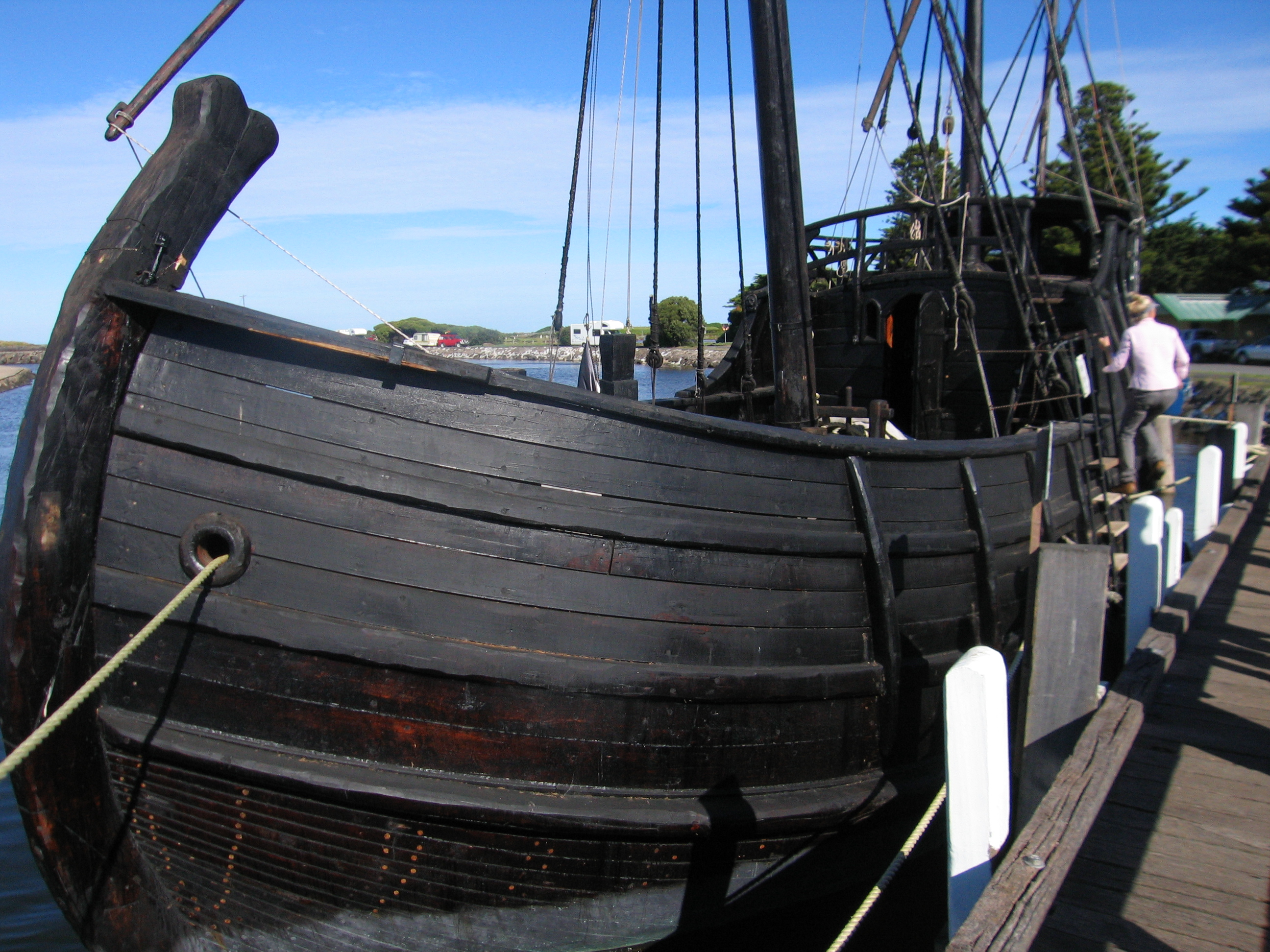 View of Notorious, the replica caravel, at the bow taken at Port Fairy, Victoria, Australia